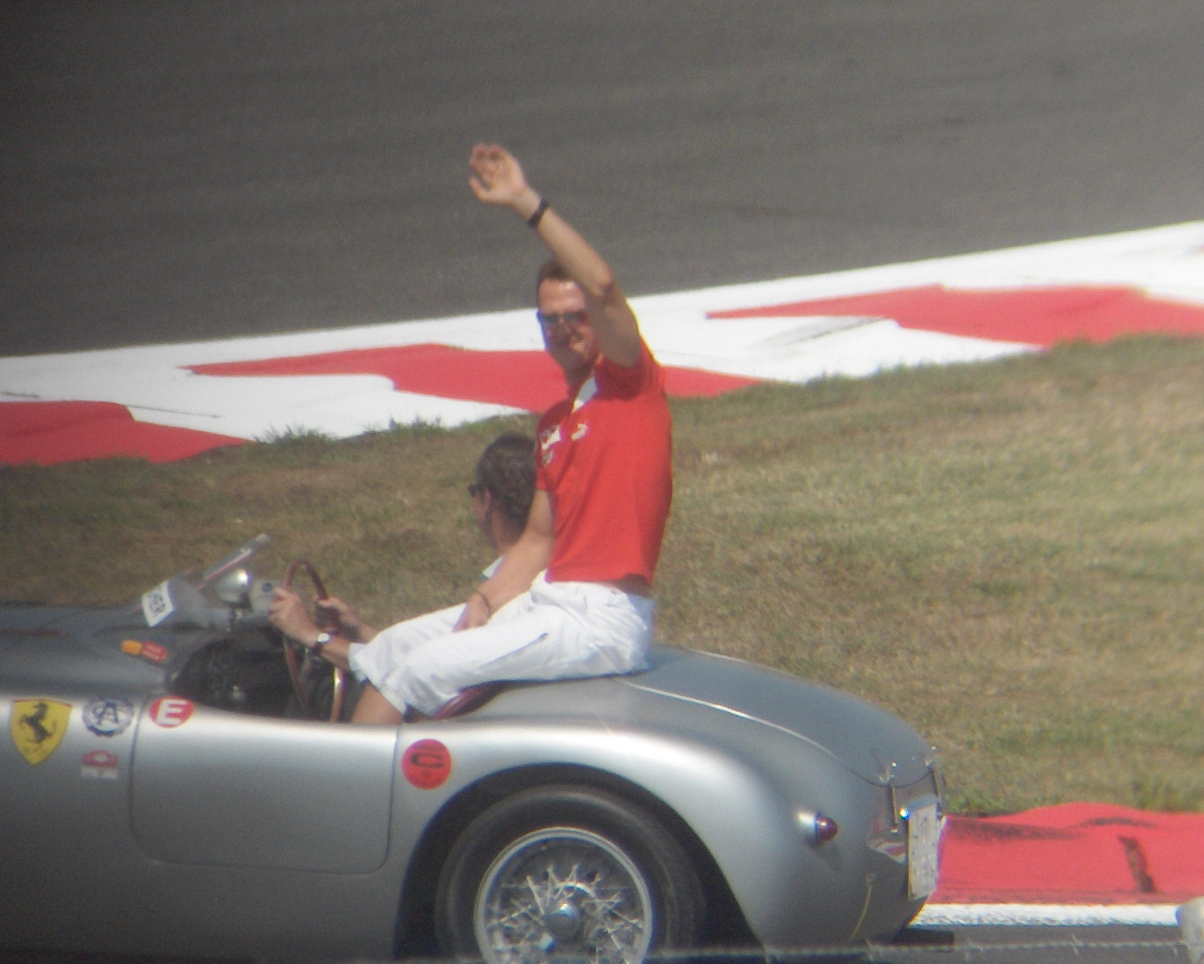 Michael Schumacher during the parade on the circuit de Nevers Magny-Cours, before the 2006 Formula One Grand Prix.